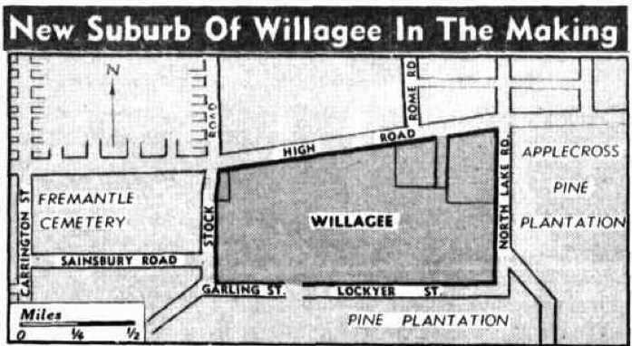 Map illustrating the new suburb of Willagee, south of Perth, Western Australia.